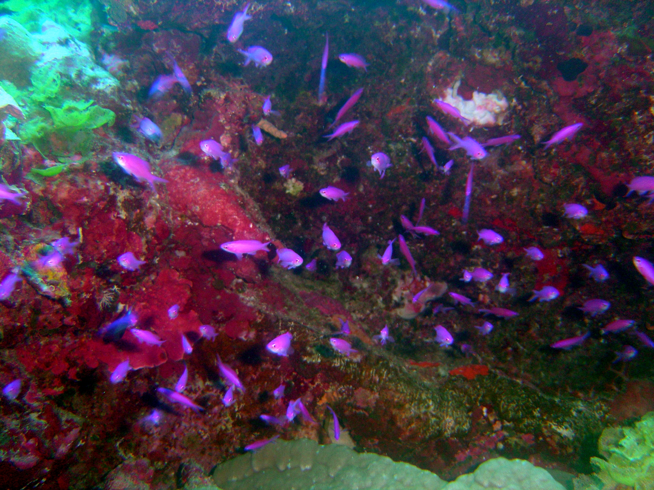 Reef scene with school of purple queen fish (Pseudanthias pascalus) Image ID: reef1413, NOAA's Coral Kingdom Collection Location: Pohnpei